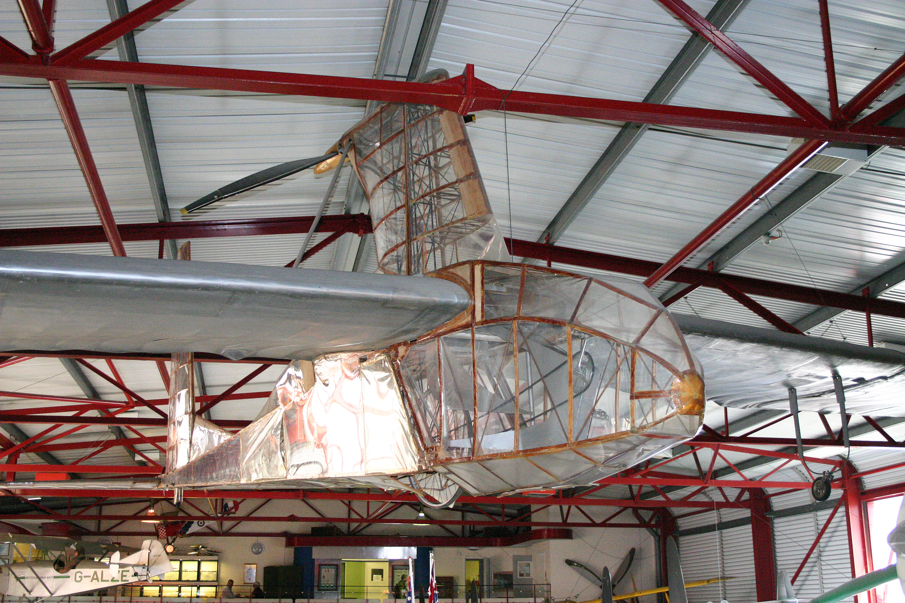 SUMPAC stands for:- Southampton University Man Powered AirCraft. That about sums it up! Also alloacted BAPC 7. Suspended in main hall. Solent Sky, Southampton. 14-6-2011